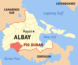 Locator map of Pio Duran in Albay, Philippines.